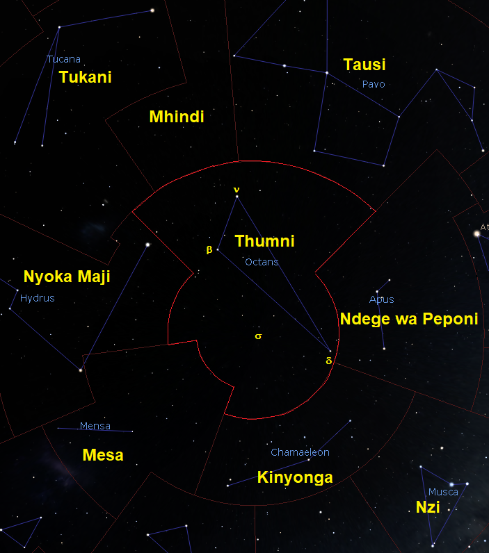 Constellation Octans as seen from South Africa, swahili labelled Kiswahili: Kundinyota ya Tumni - Octans jinsi inavyoonekana Afrika Kusini